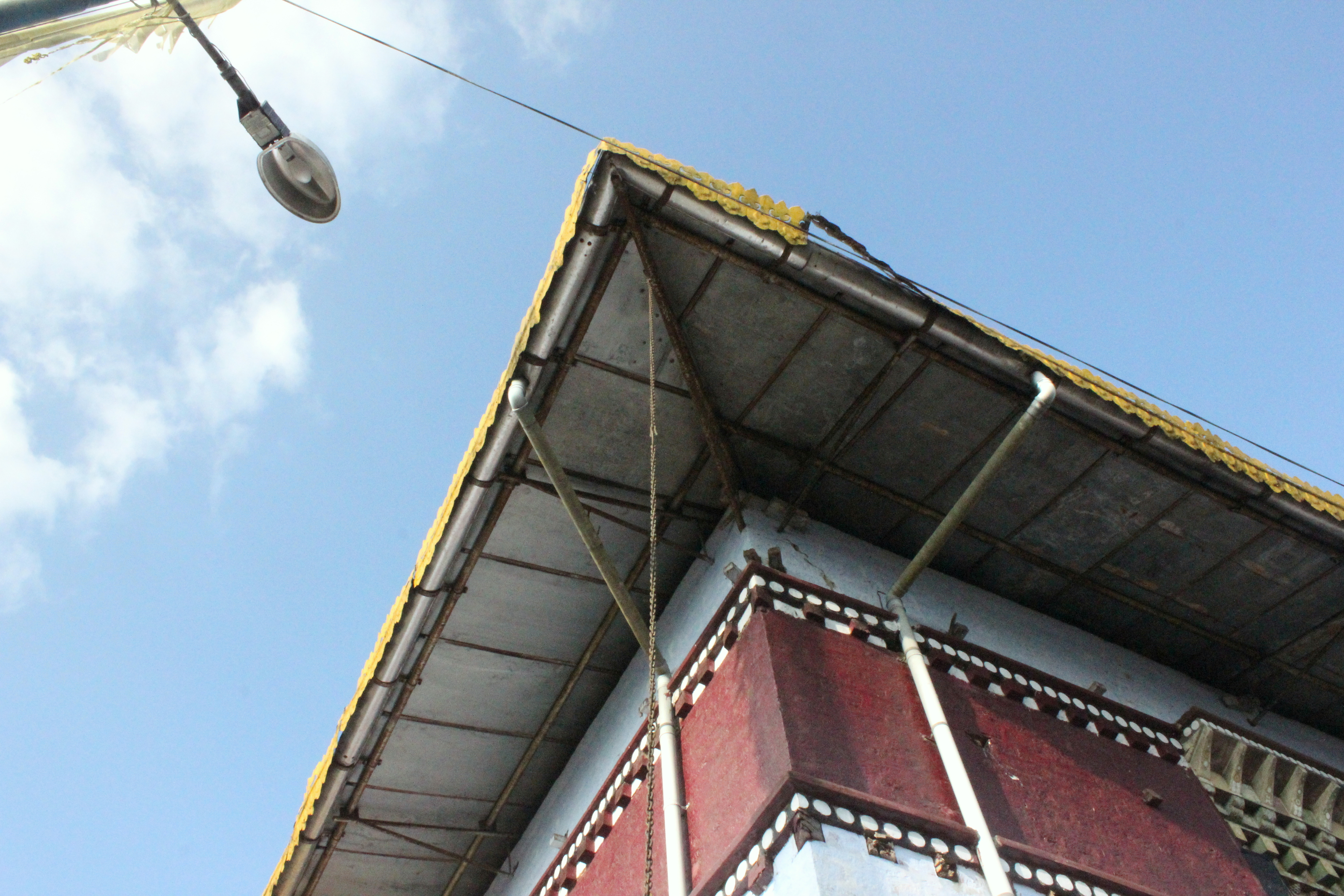 This picture shows the preservation steps taken at the Pemayangtse Monastery.